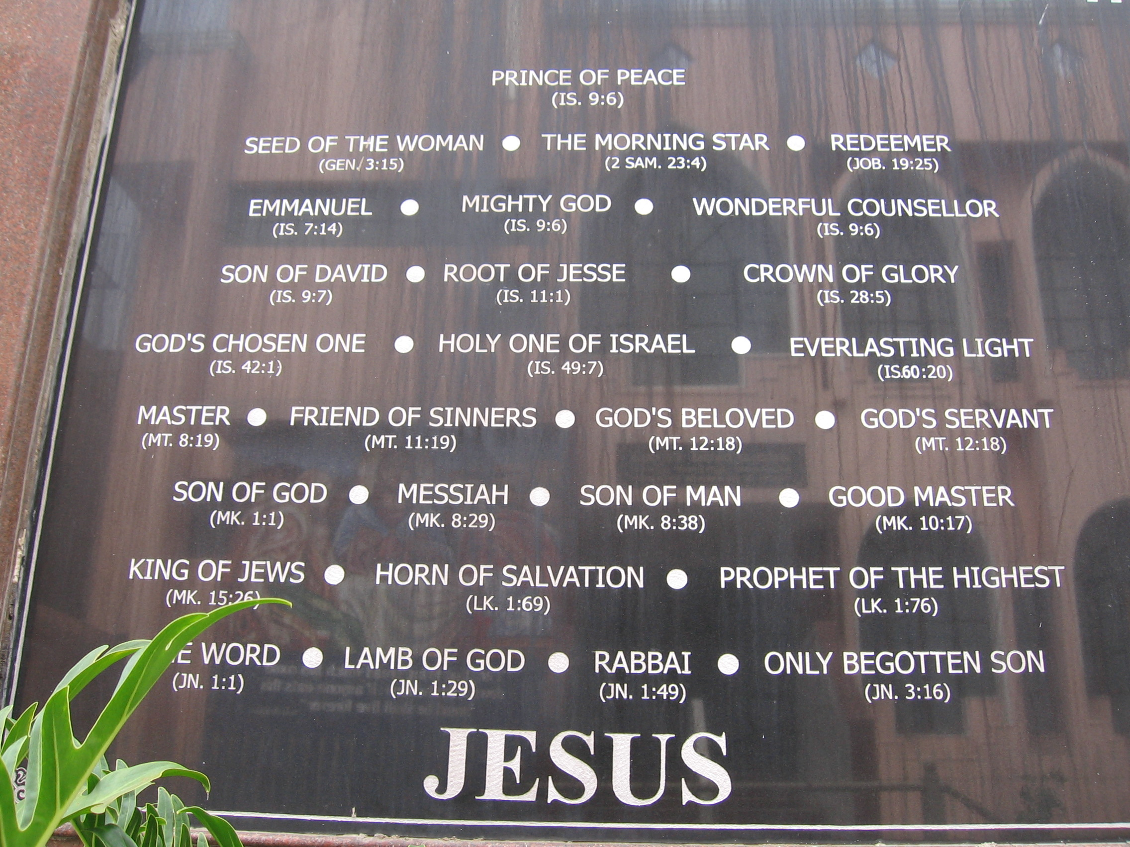 The names and titles of Jesus, on a board, outside the St Mary's Basilica, in Bangalore (India)